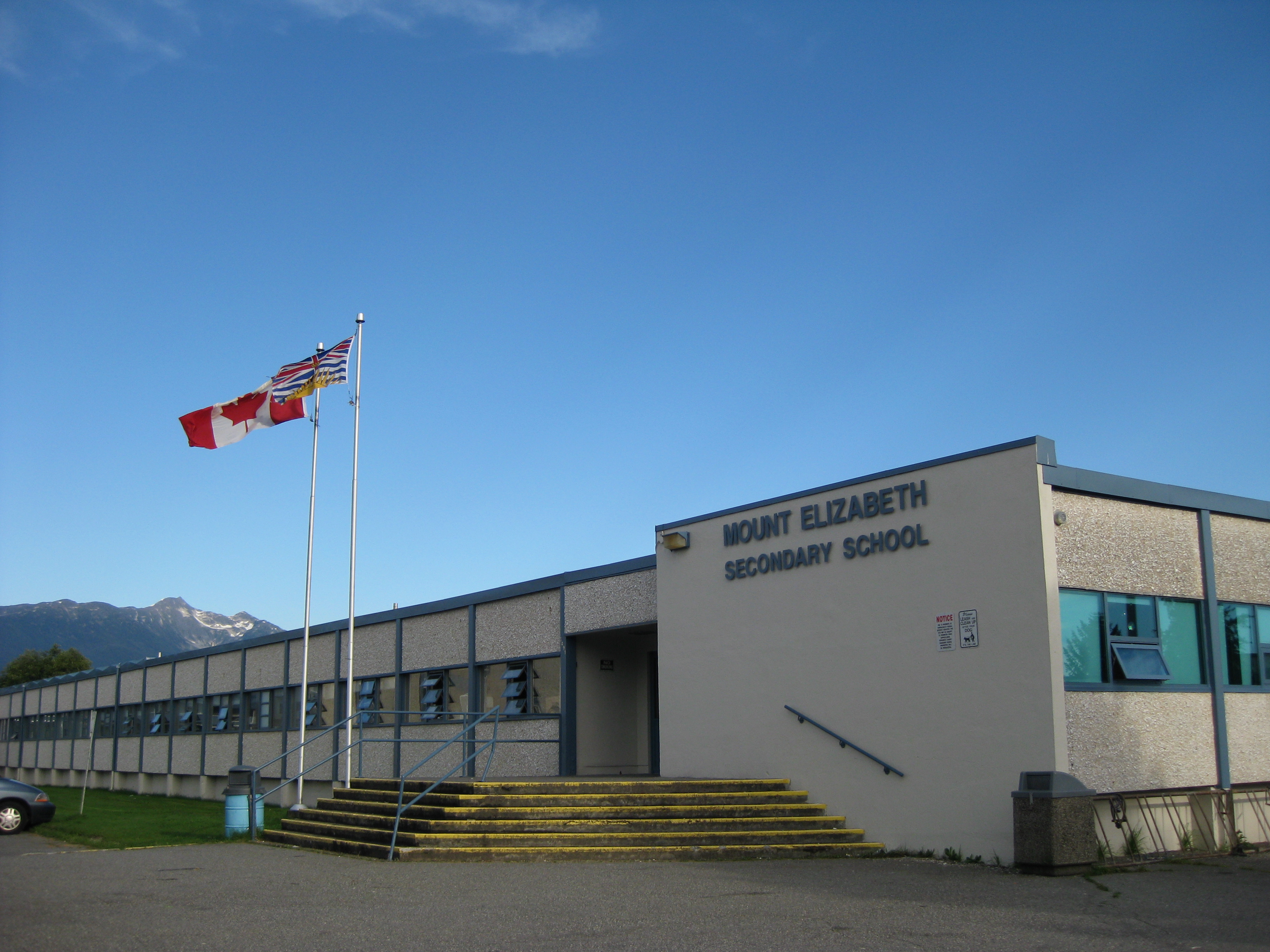 Mount Elizabeth Secondary School Front Entrance & Home Ec. Wing --- Kitimat BC, Canada